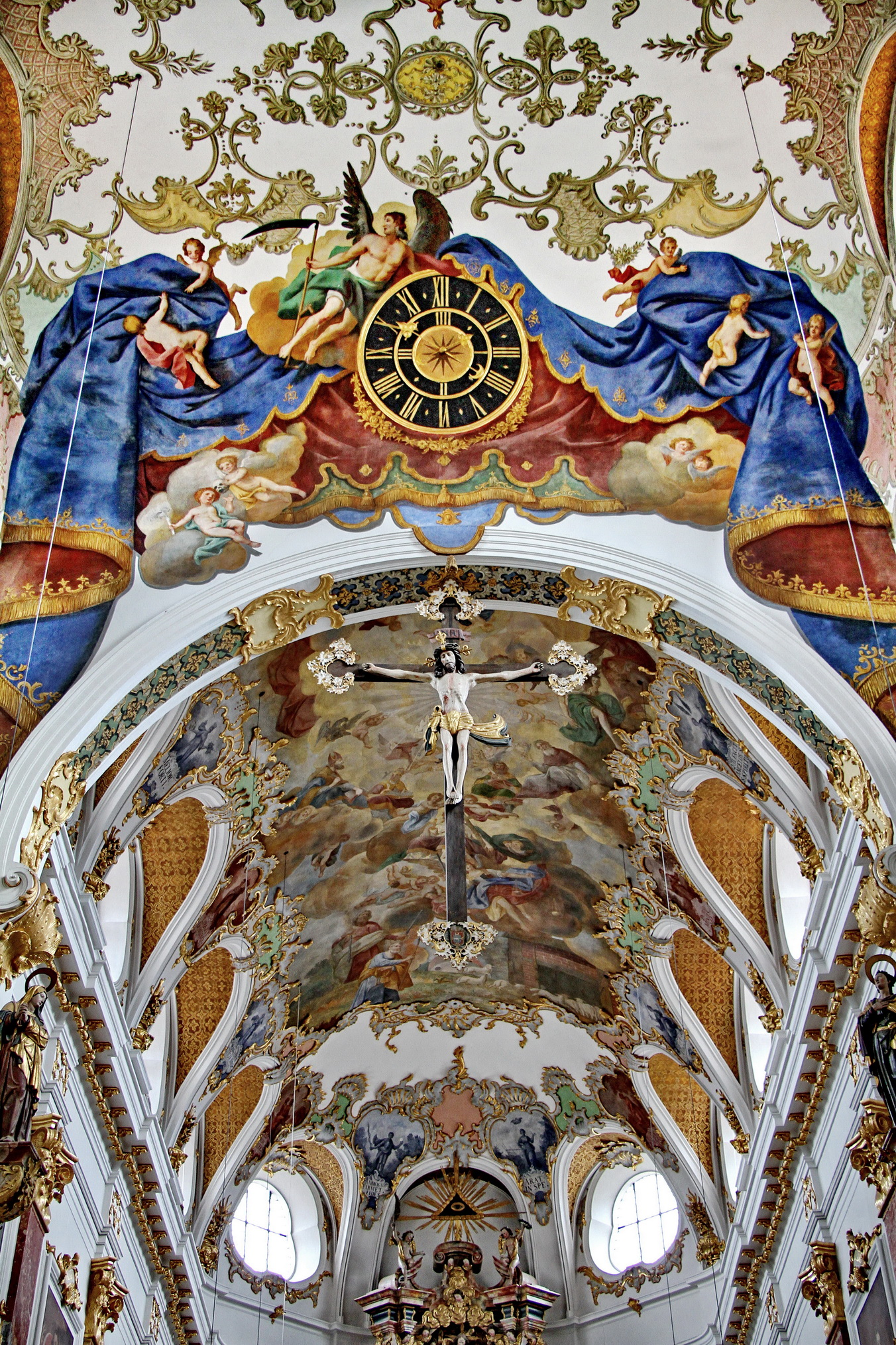 немецкий